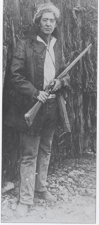 This is actor Ray Myers, portraying Davy Crockett in the 1914 movie The Siege and Fall of the Alamo, which is classified as being a lost film. This was the first feature-length movie about the Battle of the Alamo; the movie has since been lost. This still was reprinted in Frank Thompson's 2005 book The Alamo.